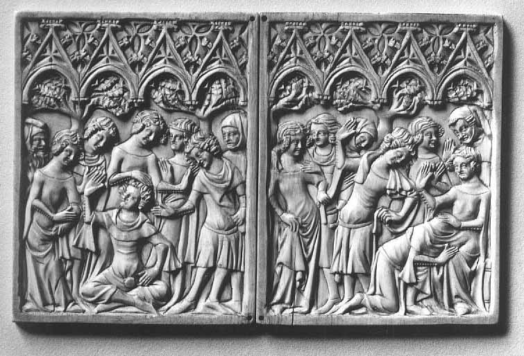 Writing tablets: Jeux de "haute coquille" et de "la grenouille" Ivory H. : 9,50 cm. ; L. : 7 cm.